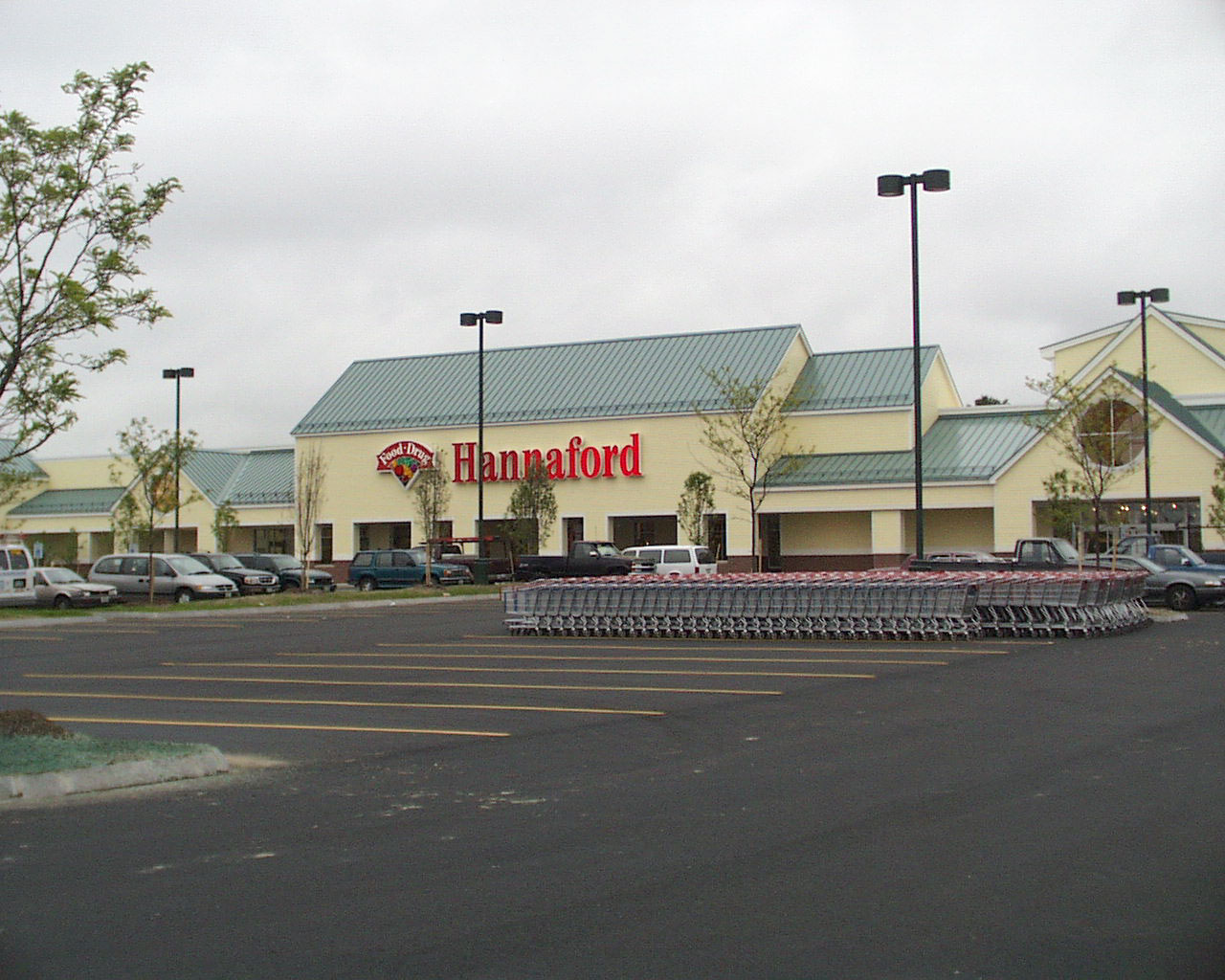 Hannaford Supermarket, northeast US.